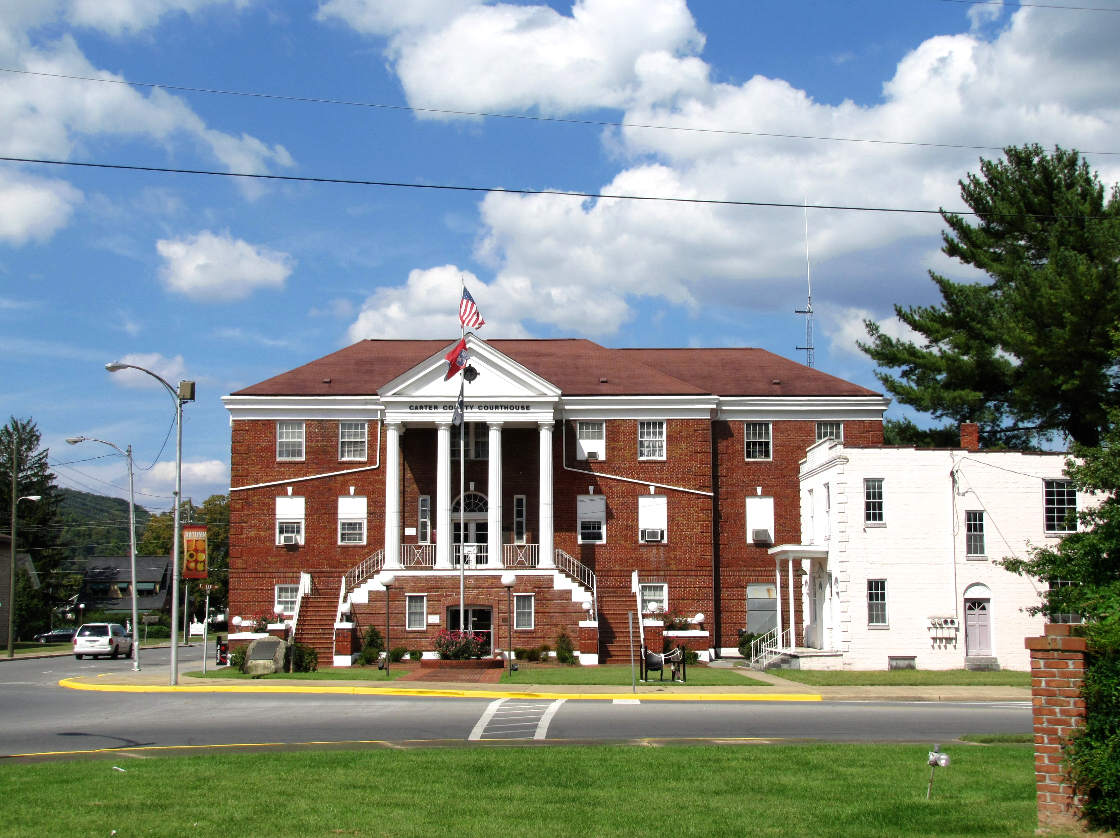 Carter County Courthouse in Elizabethton, Tennessee, United States. The original portion of the courthouse was built in the 1850s.